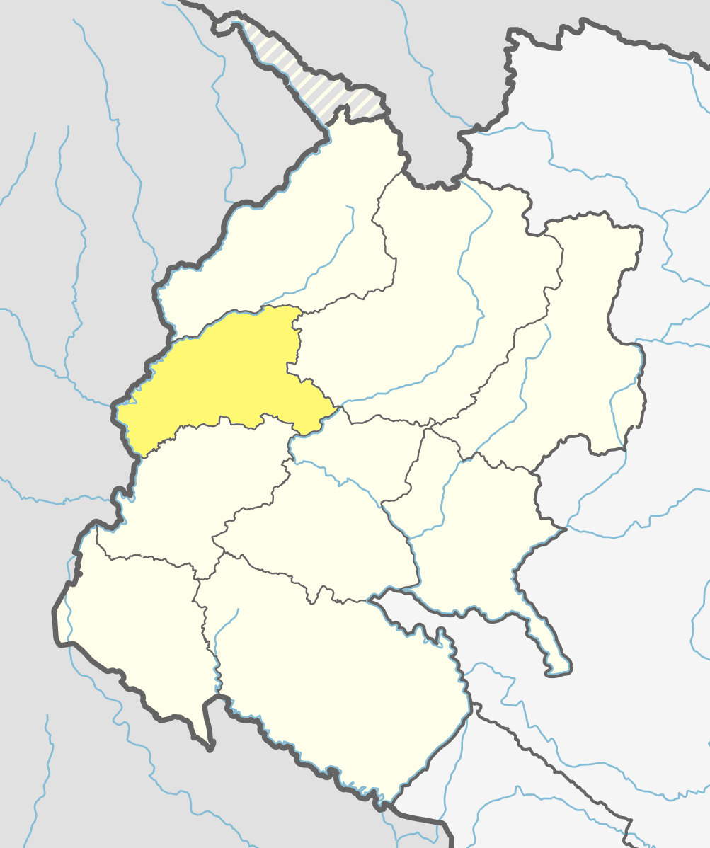 Baitadi District